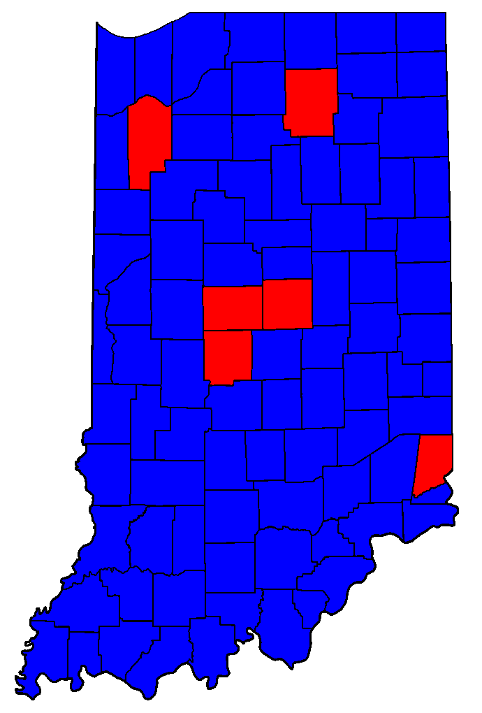 Self-created image showing county-by-county results of 2004 Indiana US Senate election.